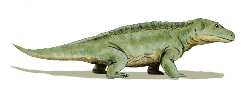 Cacops aspidephorus, a temnospondyli from the Early Permian of Texas, pencil drawing